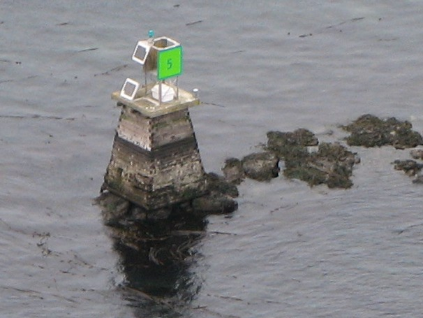 Port mark (system B) in Wasp Passage, San Juan Islands, Washington, USA